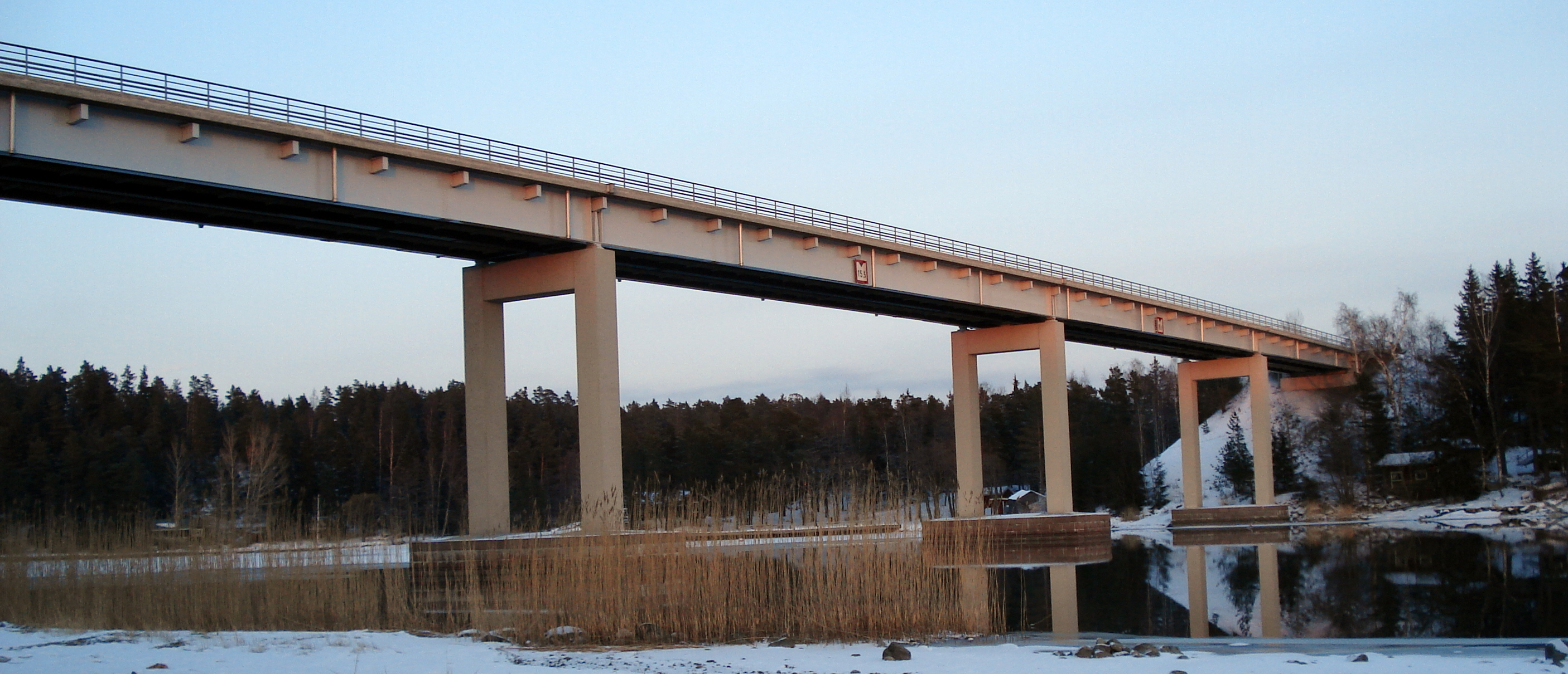 Särkänsalmen bridge at Naantali, Finland.